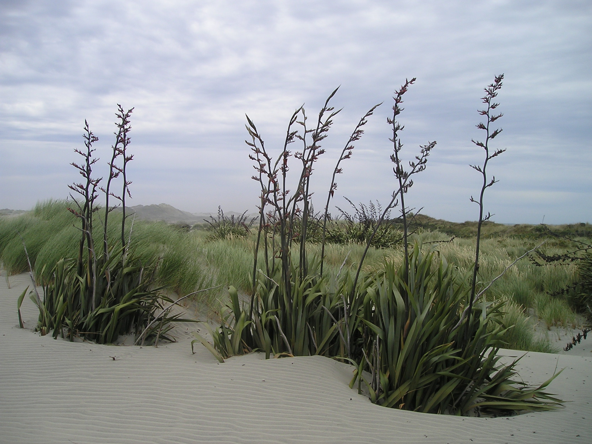 Phormium tenax, South Island, New Zealand